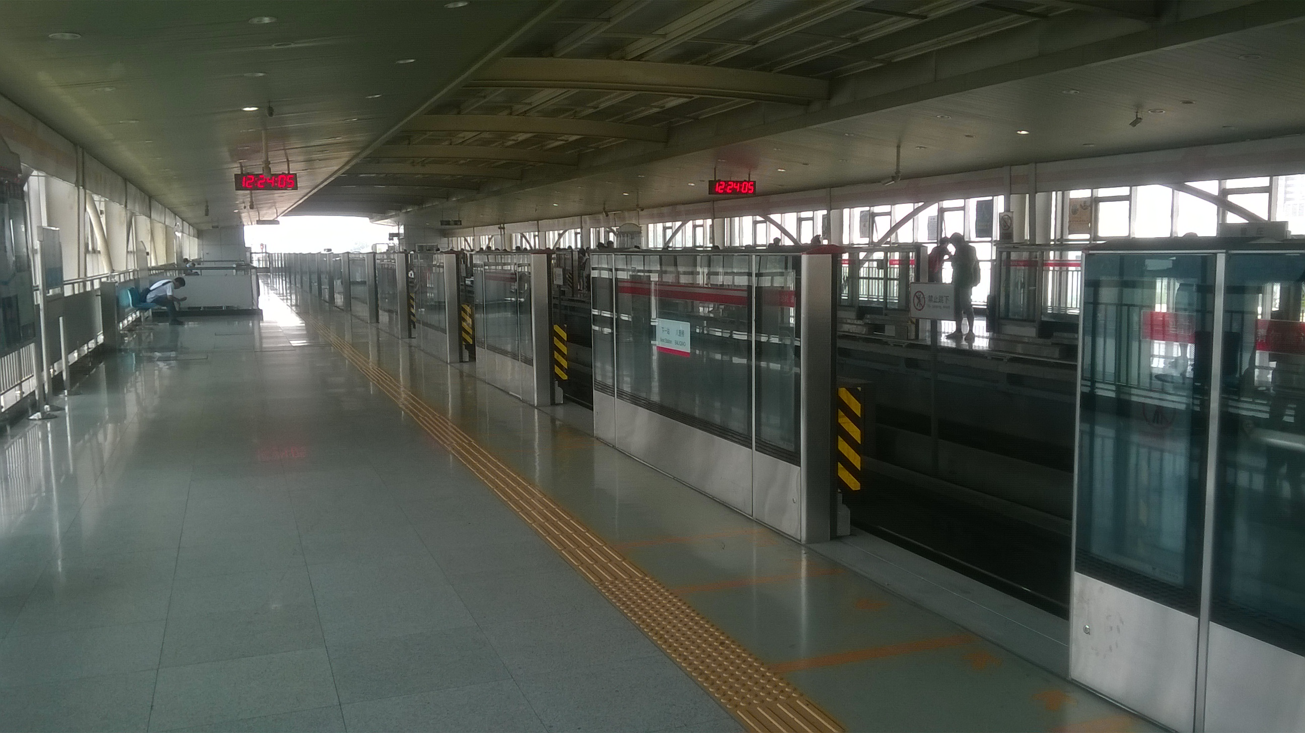 Guanzhuang (管庄, not 关庄) Station platform, Batong Line, Beijing Subway, with platform screen doors